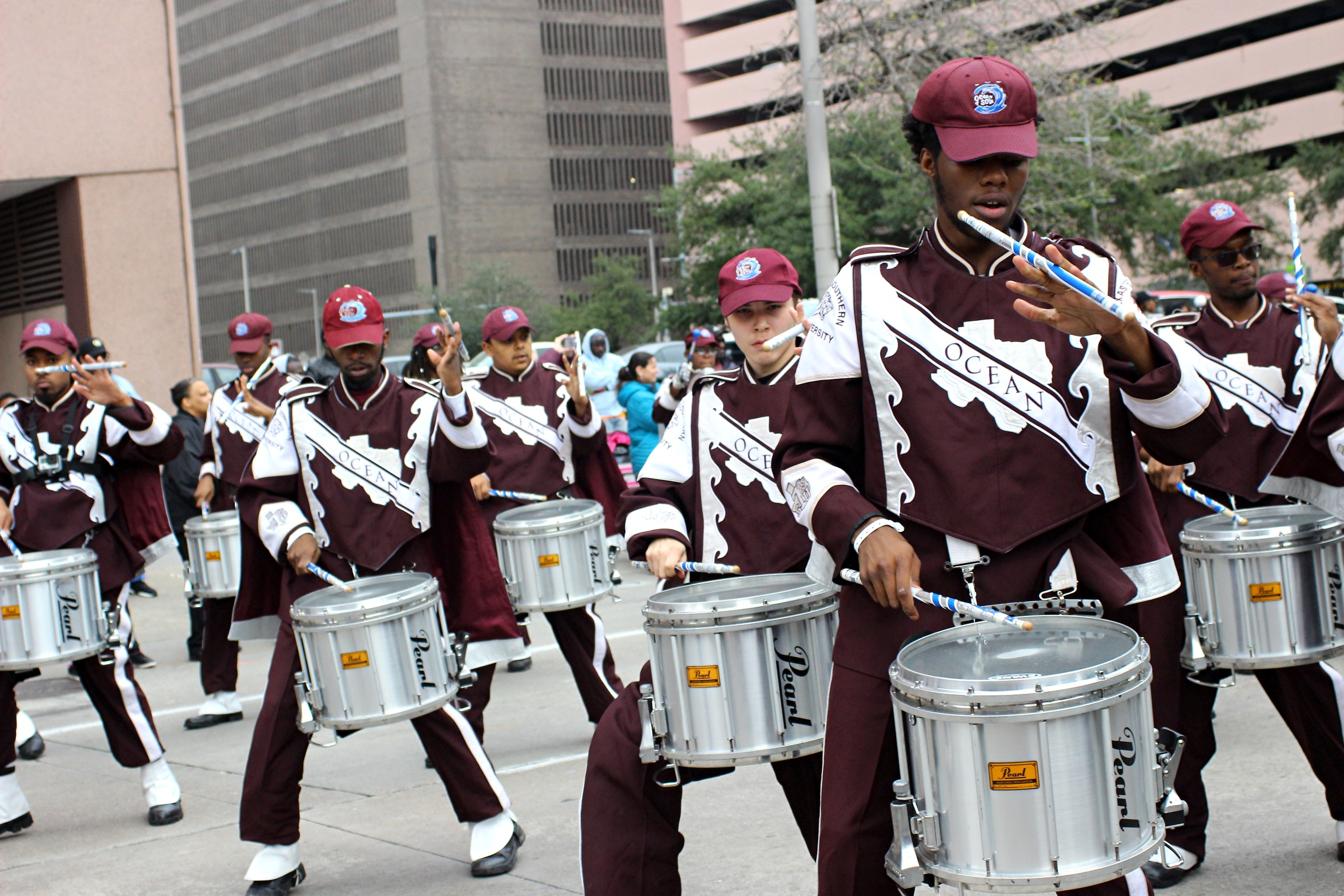 Black Heritage Society The 41st Annual Original MLK, Jr. Day Parade Downtown Houston, TX 1-21-19 Texas Southern University (TSU) Ocean of Soul Band